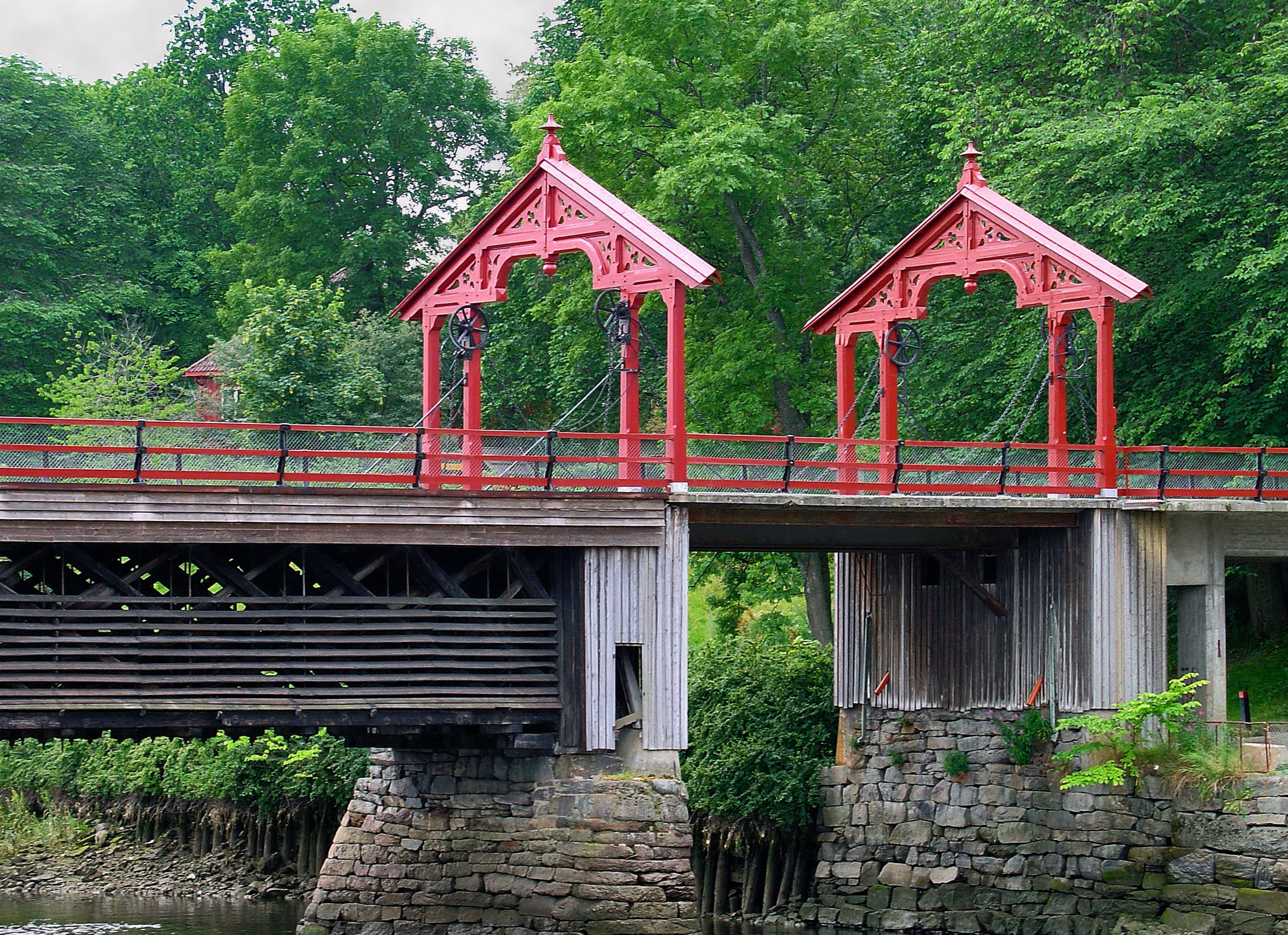 Corrected the slight over-exposure of Image:Oldbridgetrondheim.jpg. Also cropped the image slightly. Original description: Gamle Bybru or the Old Town Bridge, Trondheim, Norway